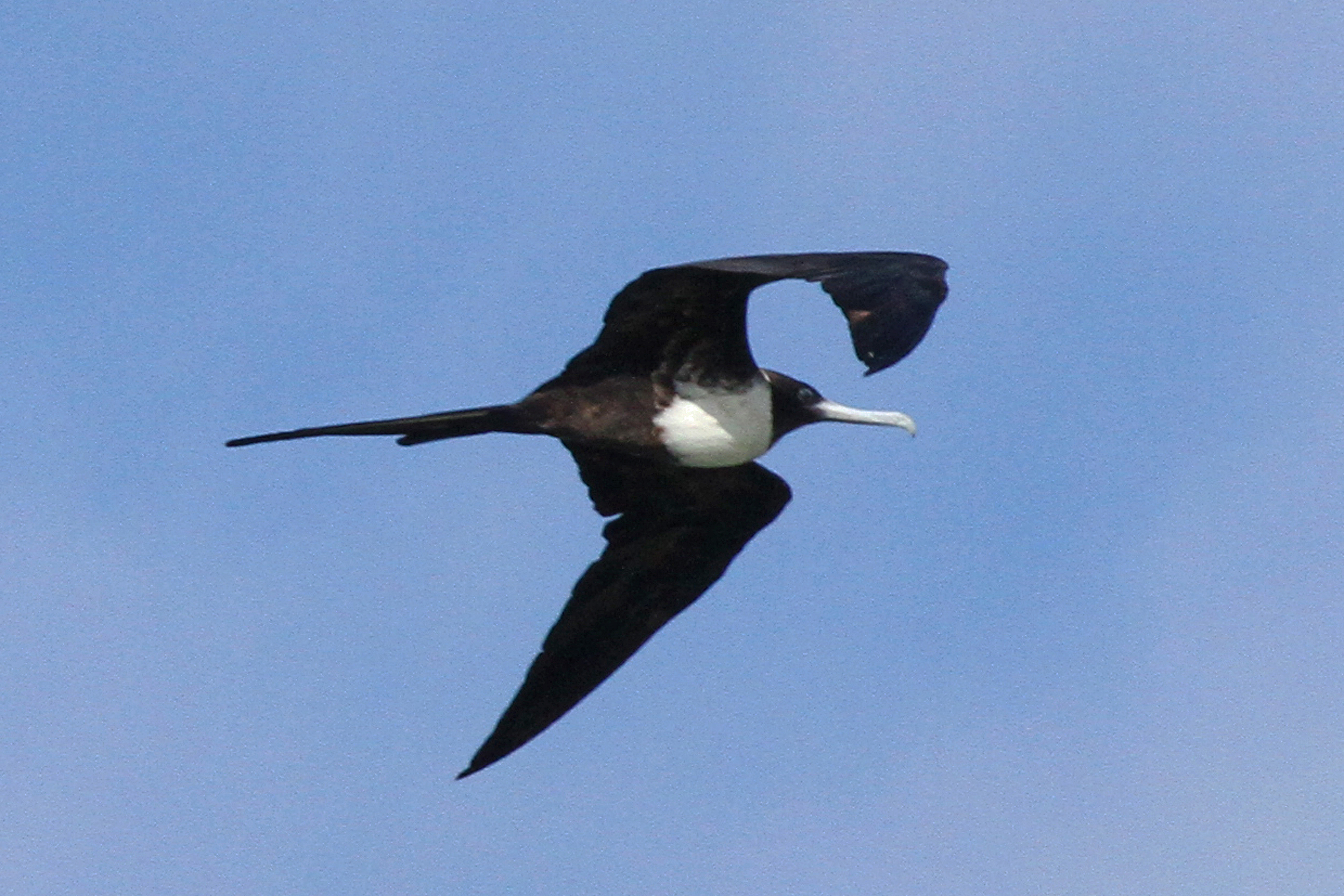 Magnificent Frigatebird - Fregata magnificens, Bahia Honda State Park, Big Pine Key, Florida. This isn't a good shot, but I was so excited about a life bird that I'm posting it anyway.